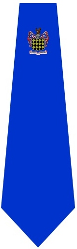 Blue Coat School General tie